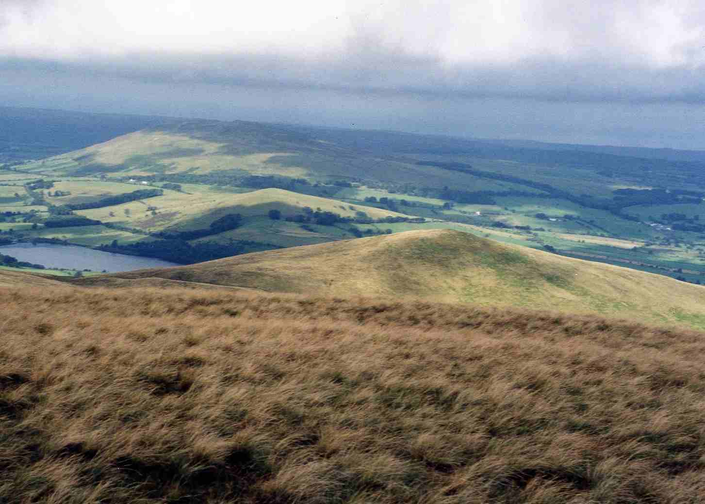 Longlands Fell seen from Lowthwaite Fell. Personal picture taken by Mick Knapton